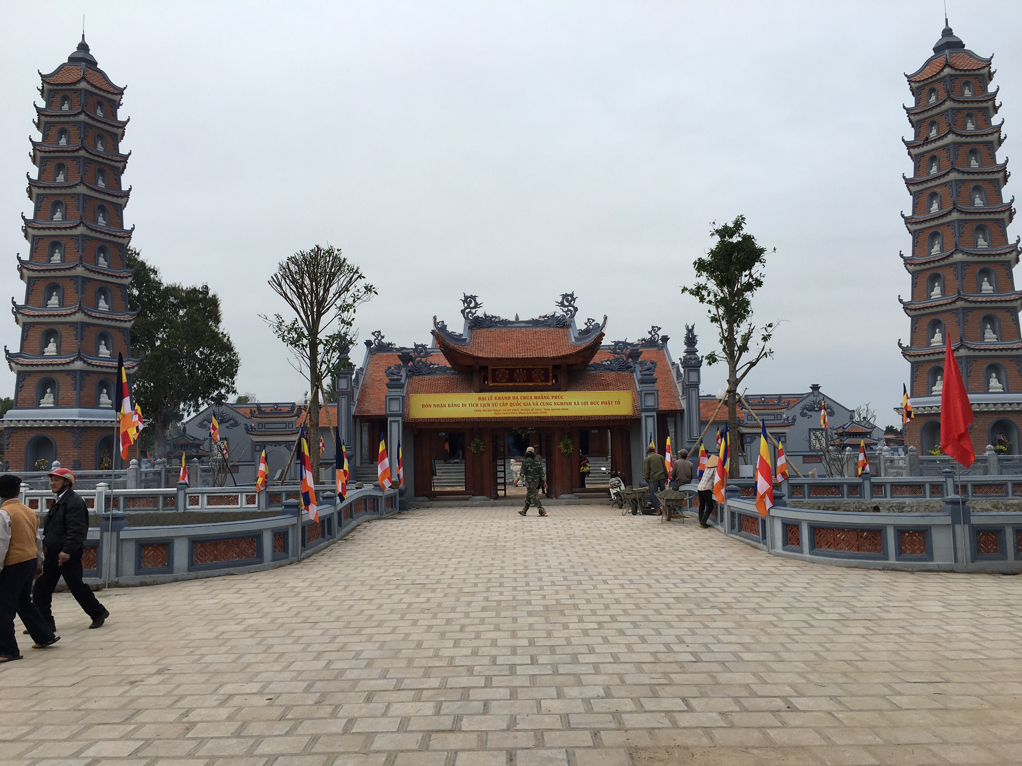 Hoang Phuc Temple in Quang Binh Province, Vietnam